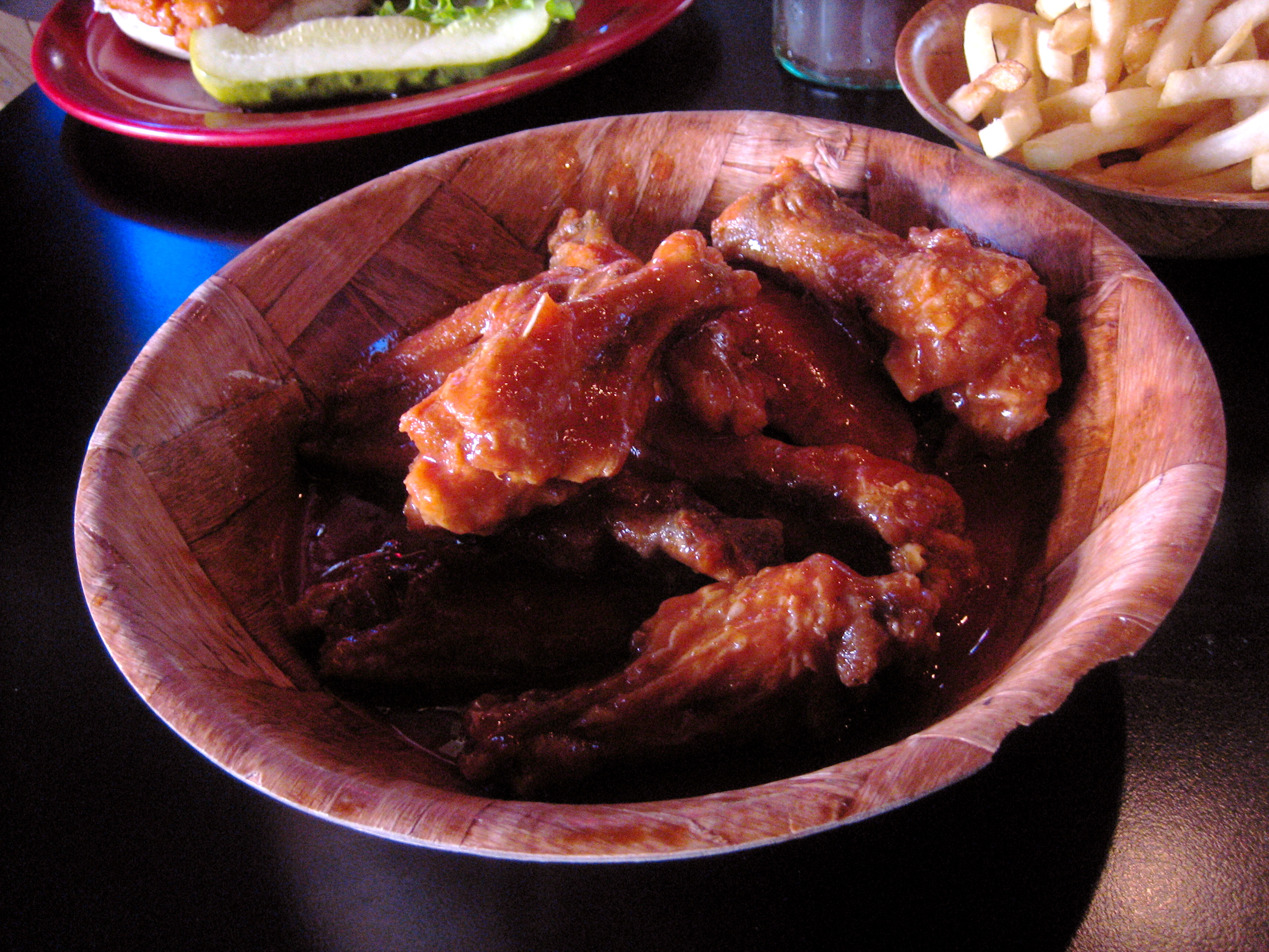 Picture of hot chicken (buffalo) wings from Duff's in Buffalo, New York